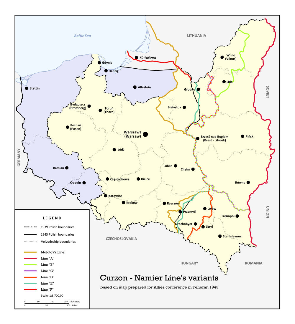 Curzon - Namier Line's variants based on map prepared for Allies conference in Teheran 1943 (in English). map source